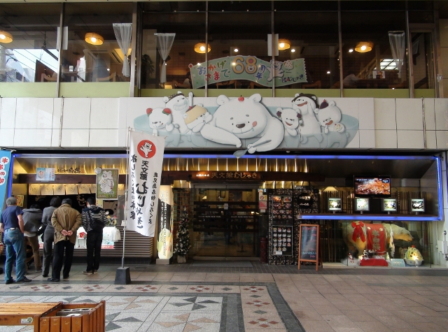 Tenmonkan Mujaki Shirokuma Kagoshima City